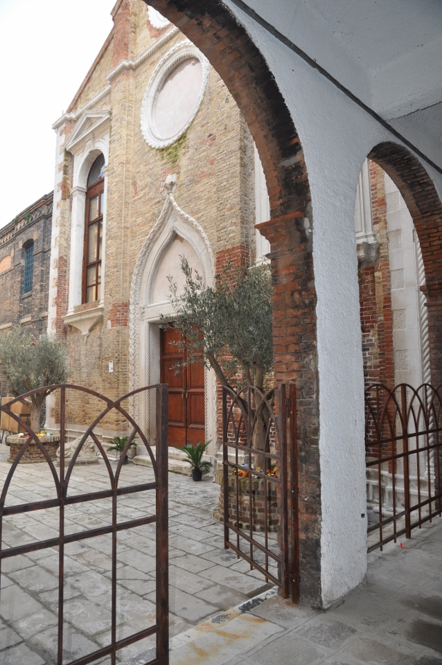 The front facade of the ex Church of Santa Chiara in Murano